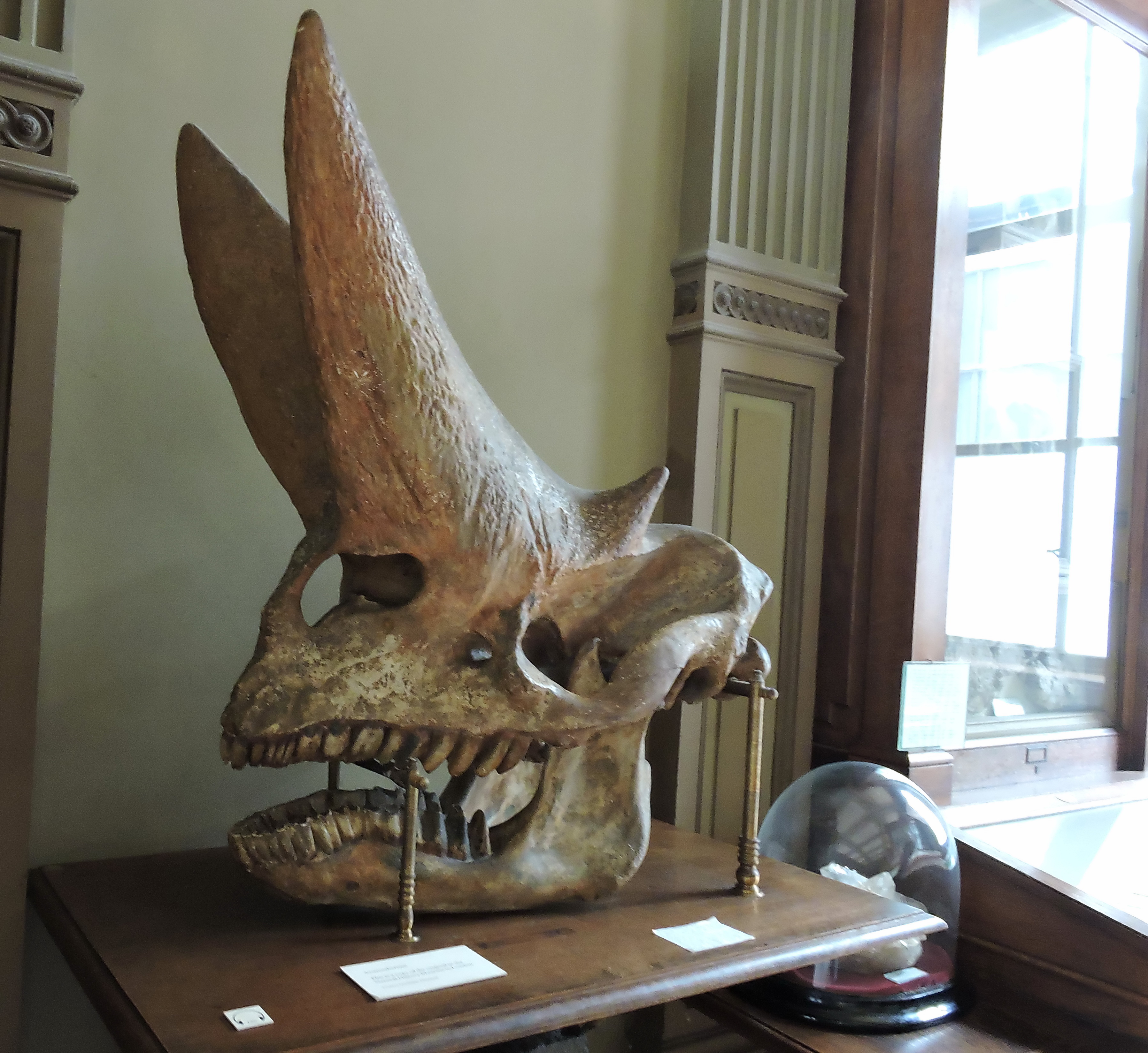 Arsinoitherium in Teylers Museum.